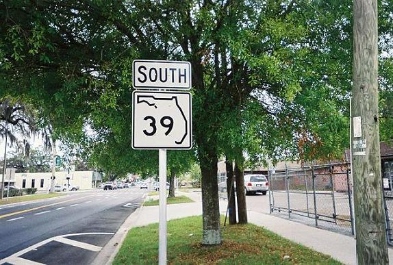 Photo of southbound Florida State Road 39 shield on former U.S. Route 98-301 Business in Dade City, Florida. Taken by me with a cheap disposable digital camera in Mid-March, 2007. As of May 2011 this sign has been removed.